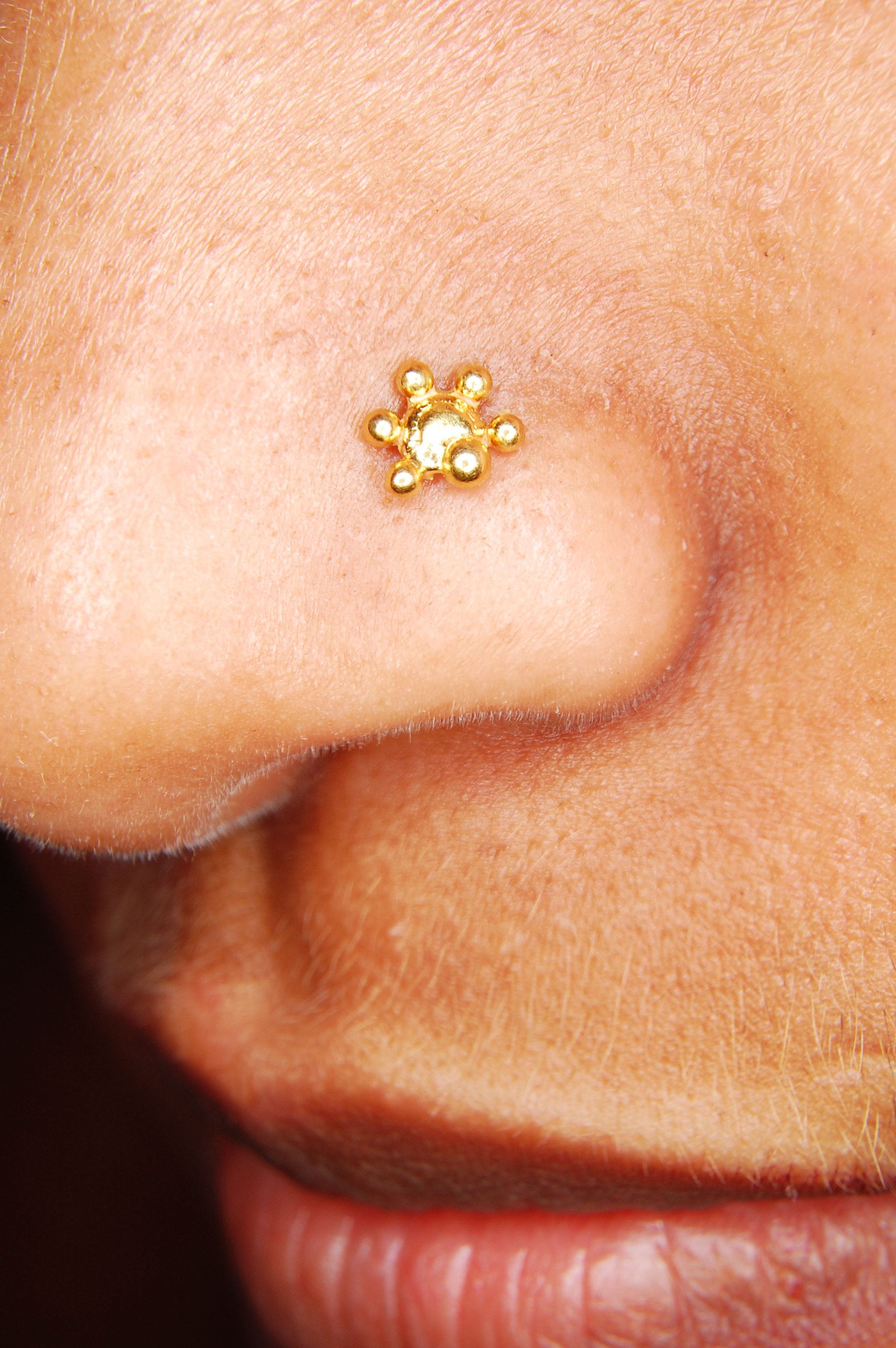 Nose piercing.